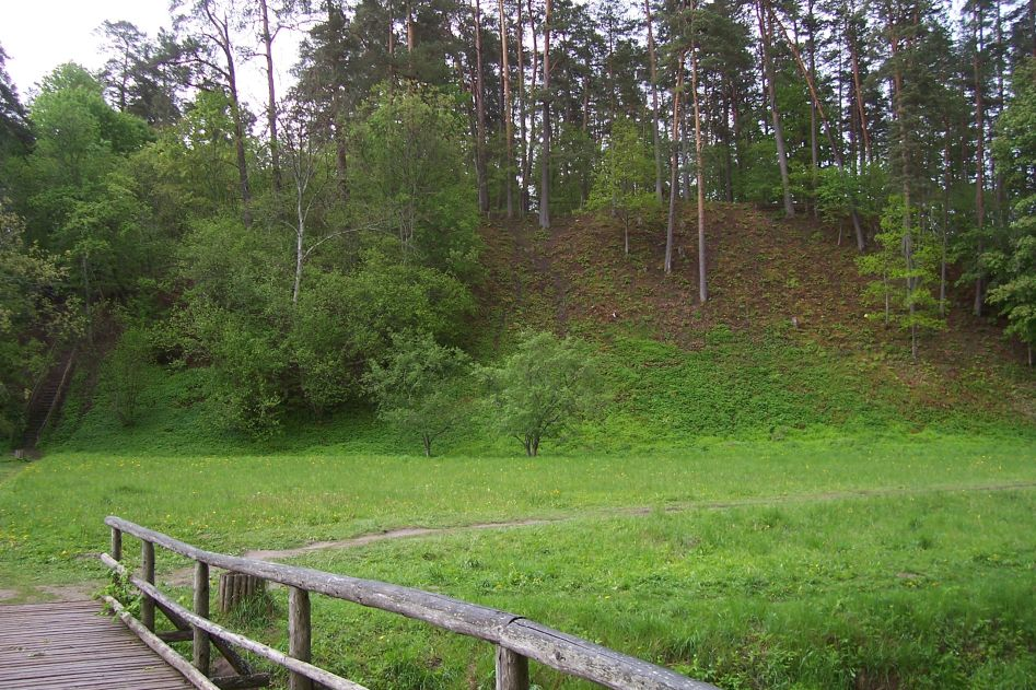 Montagne sacrée de Tervete (Lettonie) Tervete's holy mountain (Latvia) I took the photo by myself in Tervete park, I think there is no law protecting the sculptures in the park as cameras are not prohibited.